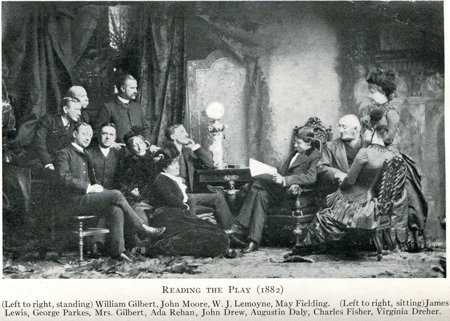 Augustin Daly.